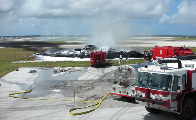 The crashed B-2 at Guam Filipino: Ang nag-crash na B-2 sa Guam Tagalog: Ang nag-crash na B-2 sa Guam